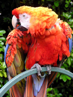 RGB 24bits palette sample image